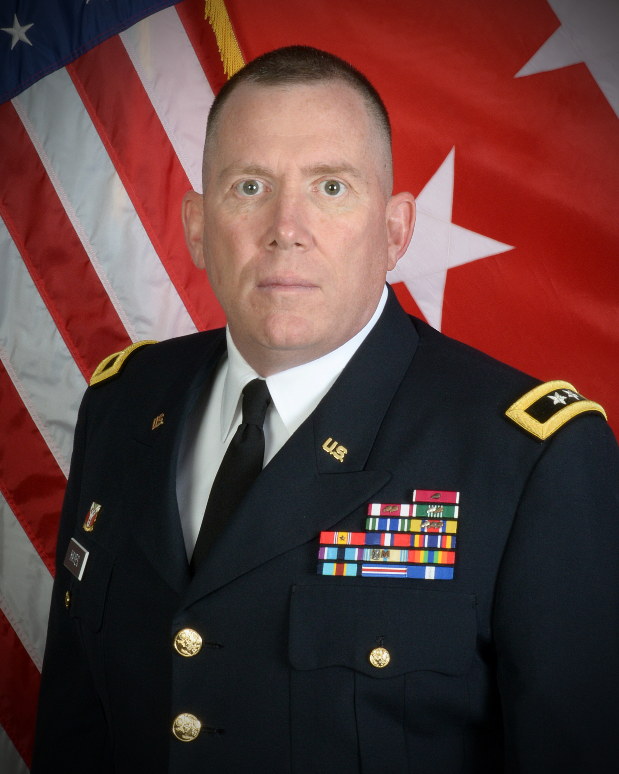 Official photo of MG Richard Hayes